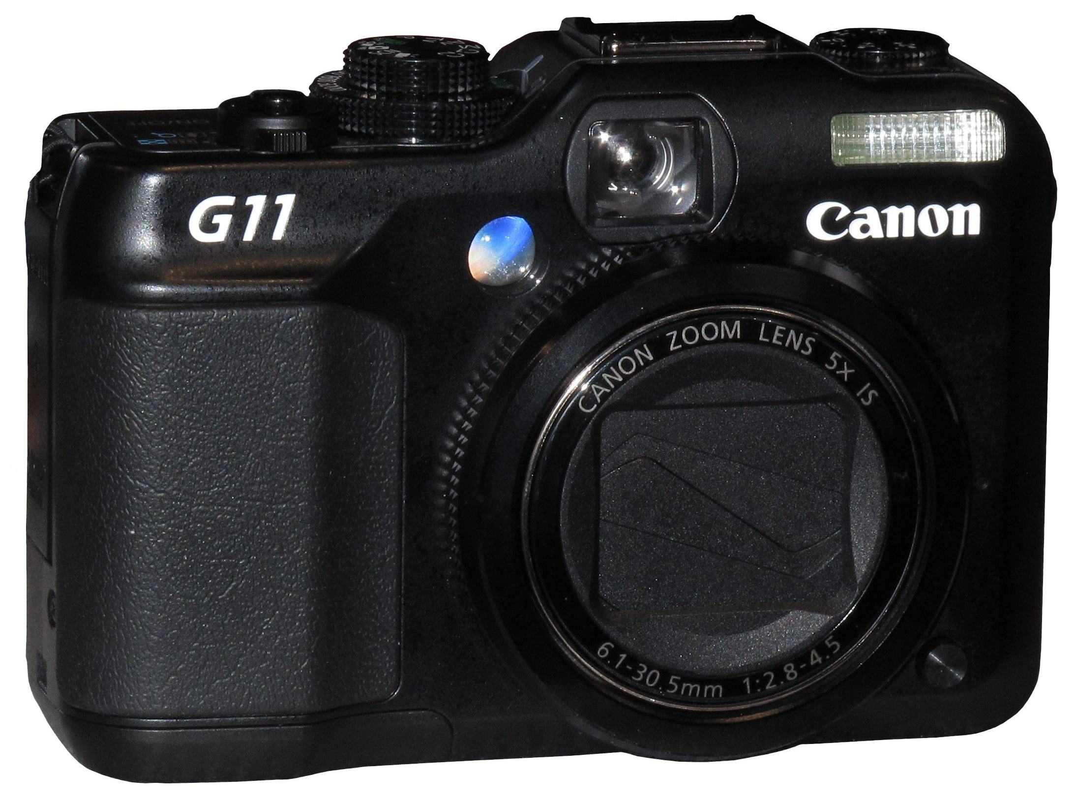 Canon PowerShot G11 digital compact camera